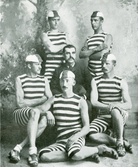 1883 Cornell Varsity Rowing Team - Standing (l to r): C. A. Raht, F. G. Scofield - Siting (l to r): C. C. Chase, Charles Courtney, H. B. Swartwout - On floor: F. E. Wilcox